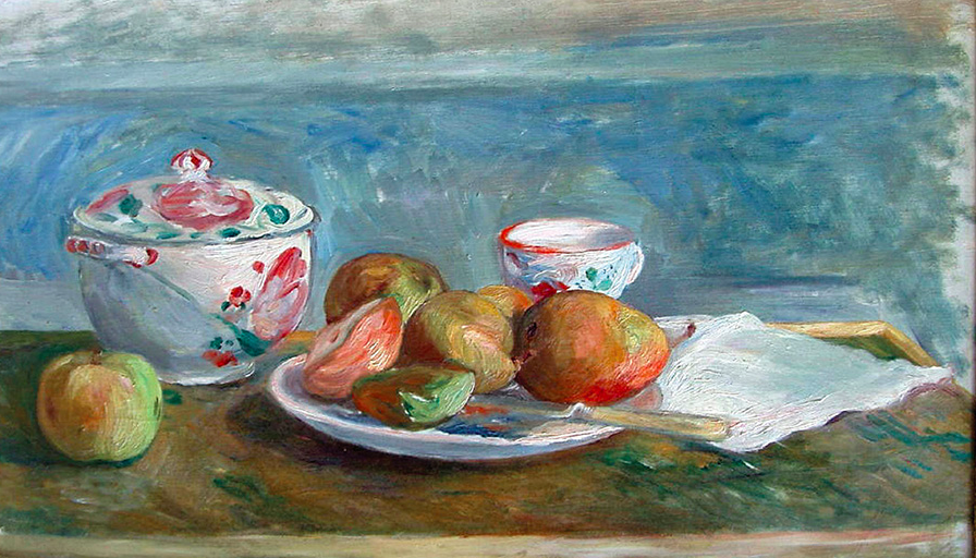 Painting by Paule Gobillard, Oil on canvas, 24 x 15 inches; owned by Wally Findlay Galleries